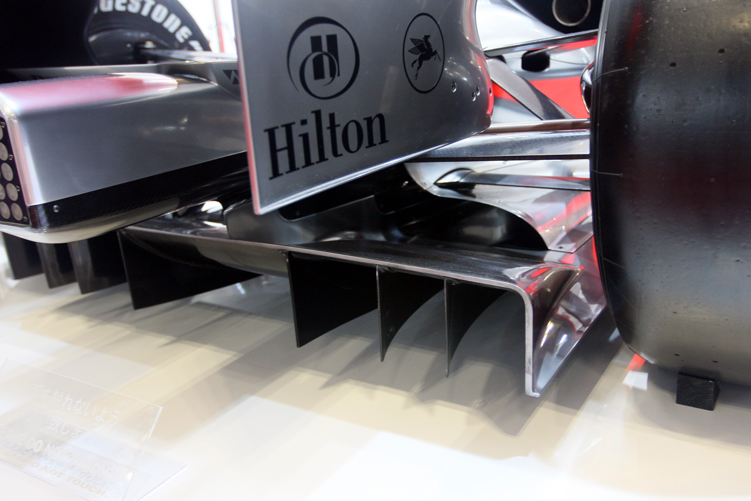 A 'conventional' diffuser of the McLaren MP4-24 (1/1 scale model car).